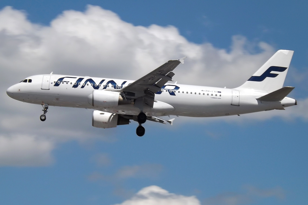 OH-LXI A320 Finnair